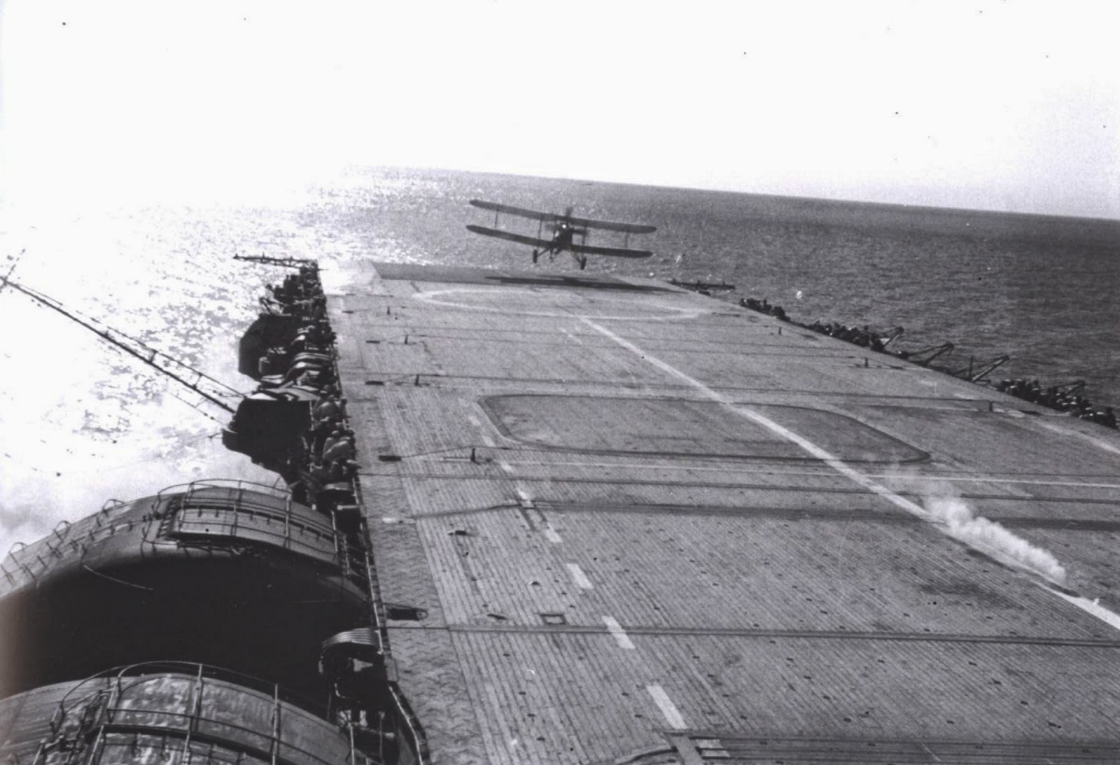 The japanese aircraft carrier Soryu on trials in the Bungo strait, december 1937. The landing approach Navy Type 92 Carrier Attack Bomber.